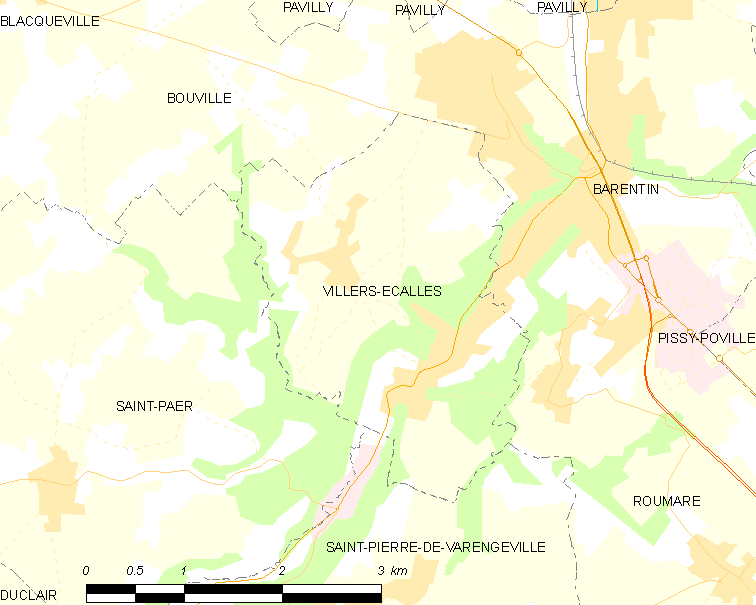 Map of French municipality Villers-Écalles